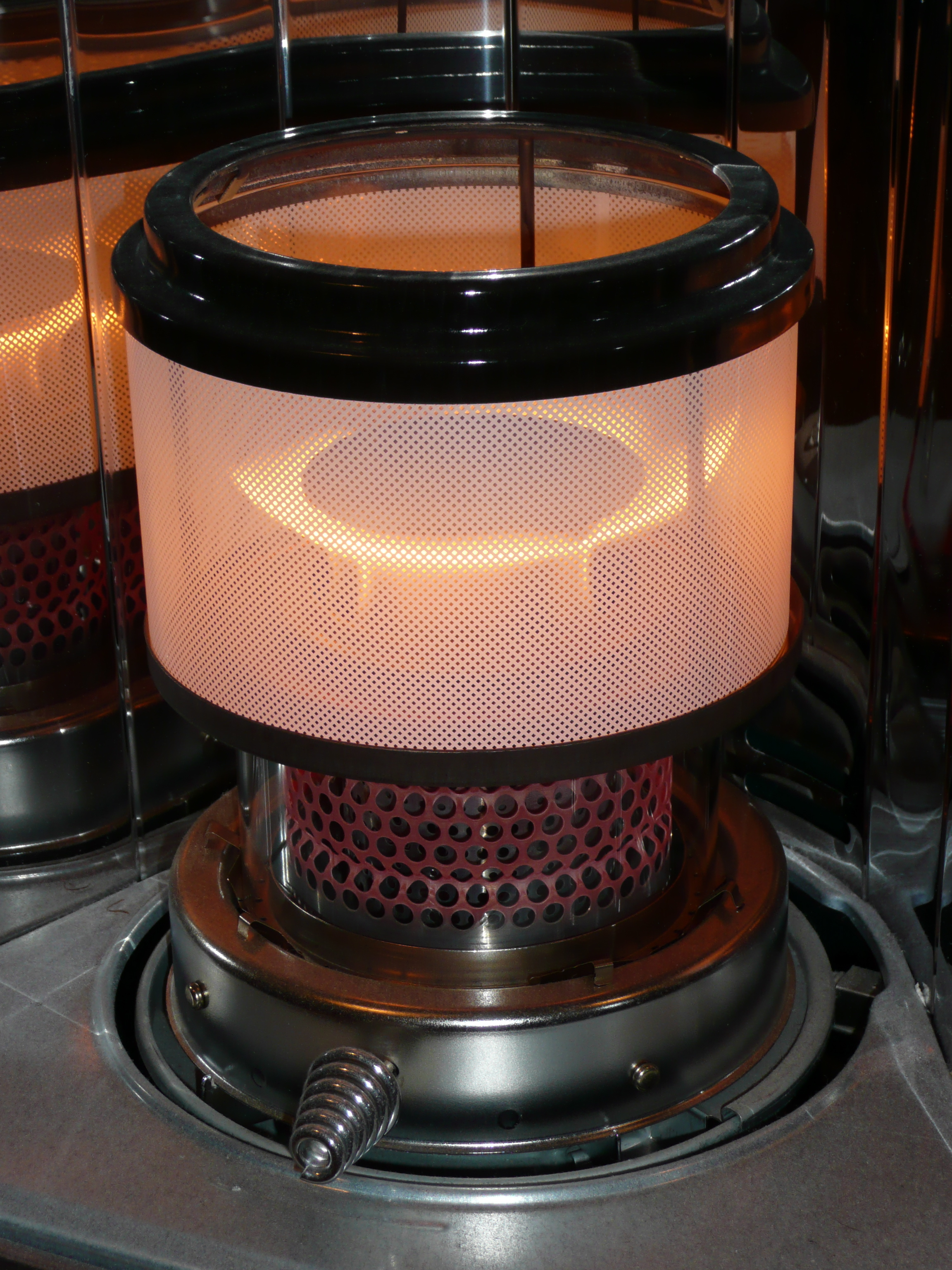 two stage kerosine combustion